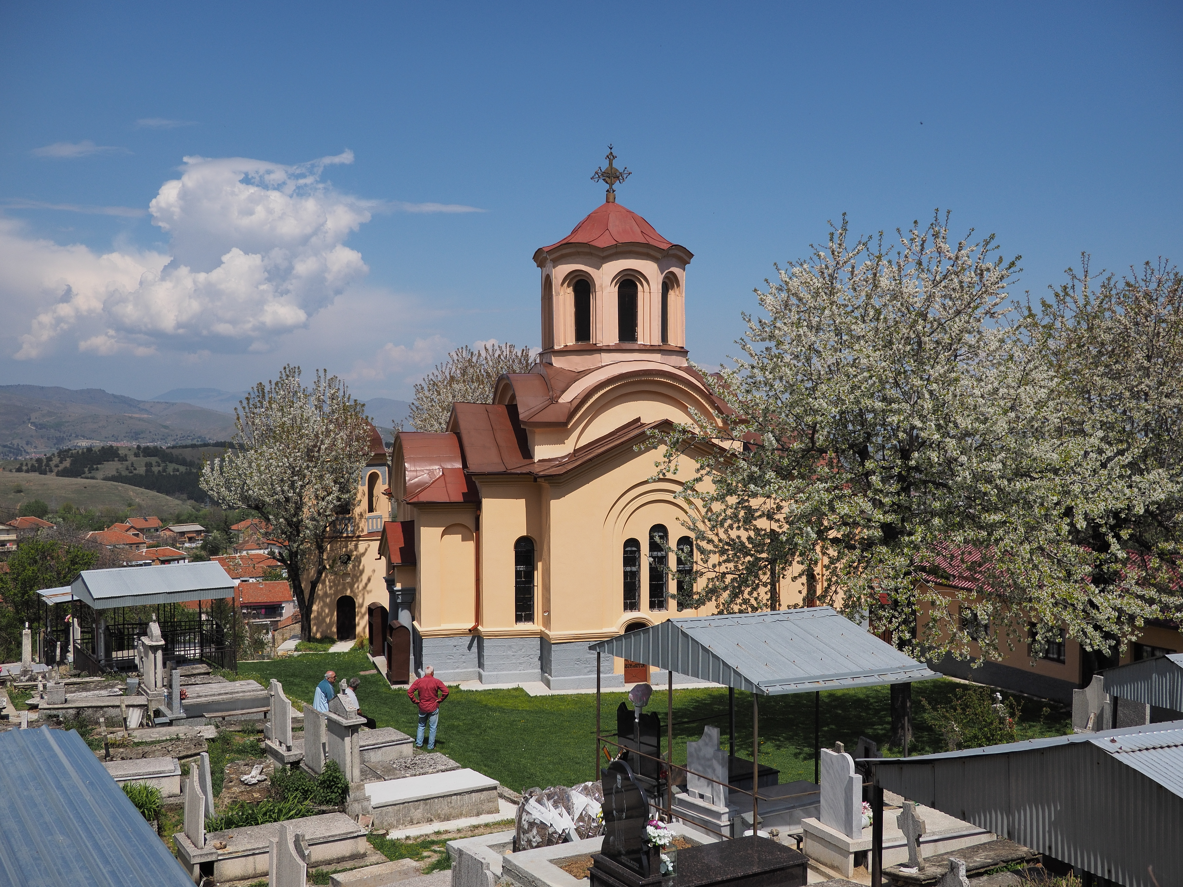 View of the St. Michael the Archangel Church in the village Bukovo